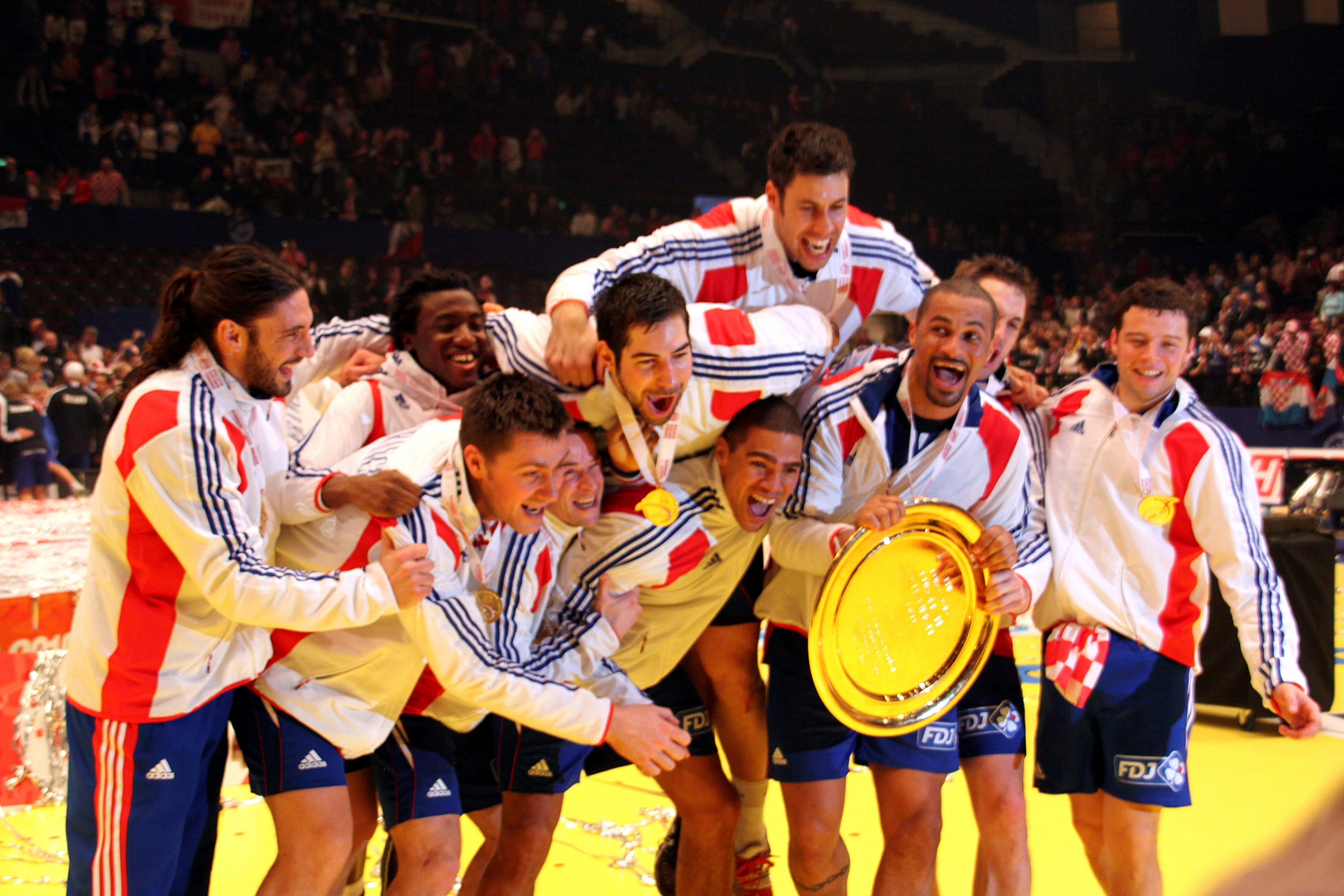 The players of the France national handball team are jubilant about the first place in the 2010 European Men's Handball Championship